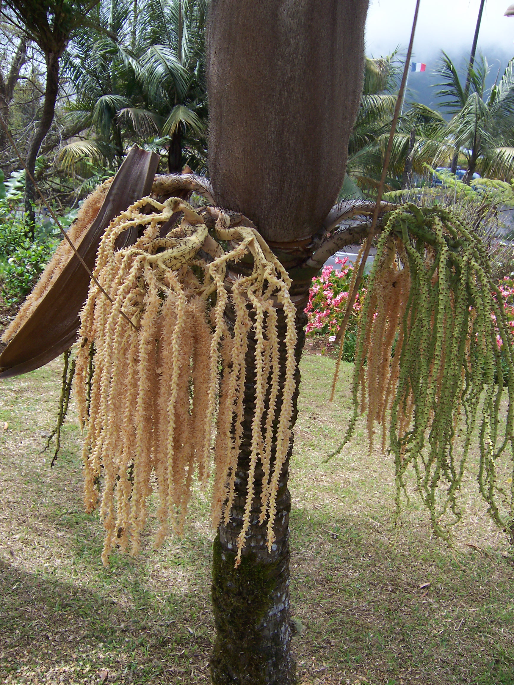 young barbel palm (Acanthophoenix rubra) : male and female flowers (Plaine-des-Palmistes, Réunion island)